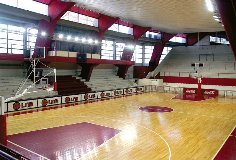 Basketball Stadium of Club Atletico River Plate.